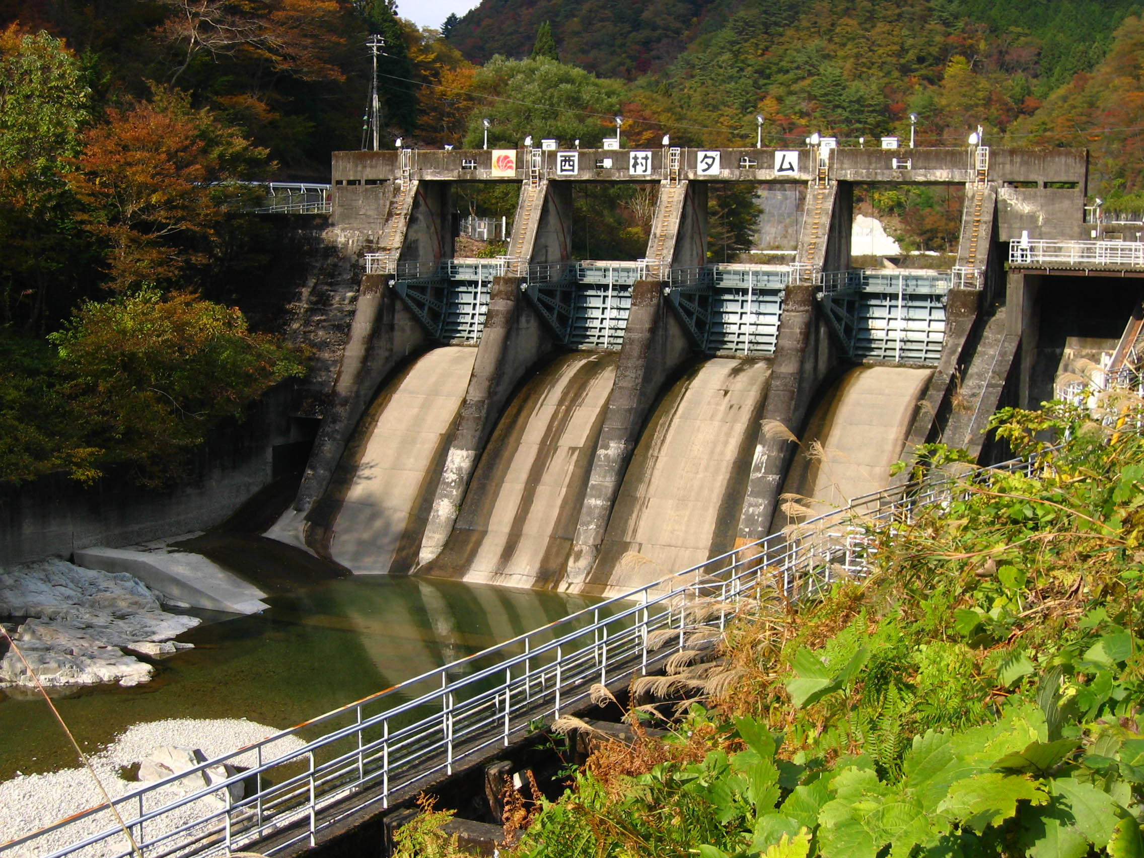 Nishimura Dam (西村ダム) is a dam in Gero city, Gifu prefecture, Japan.